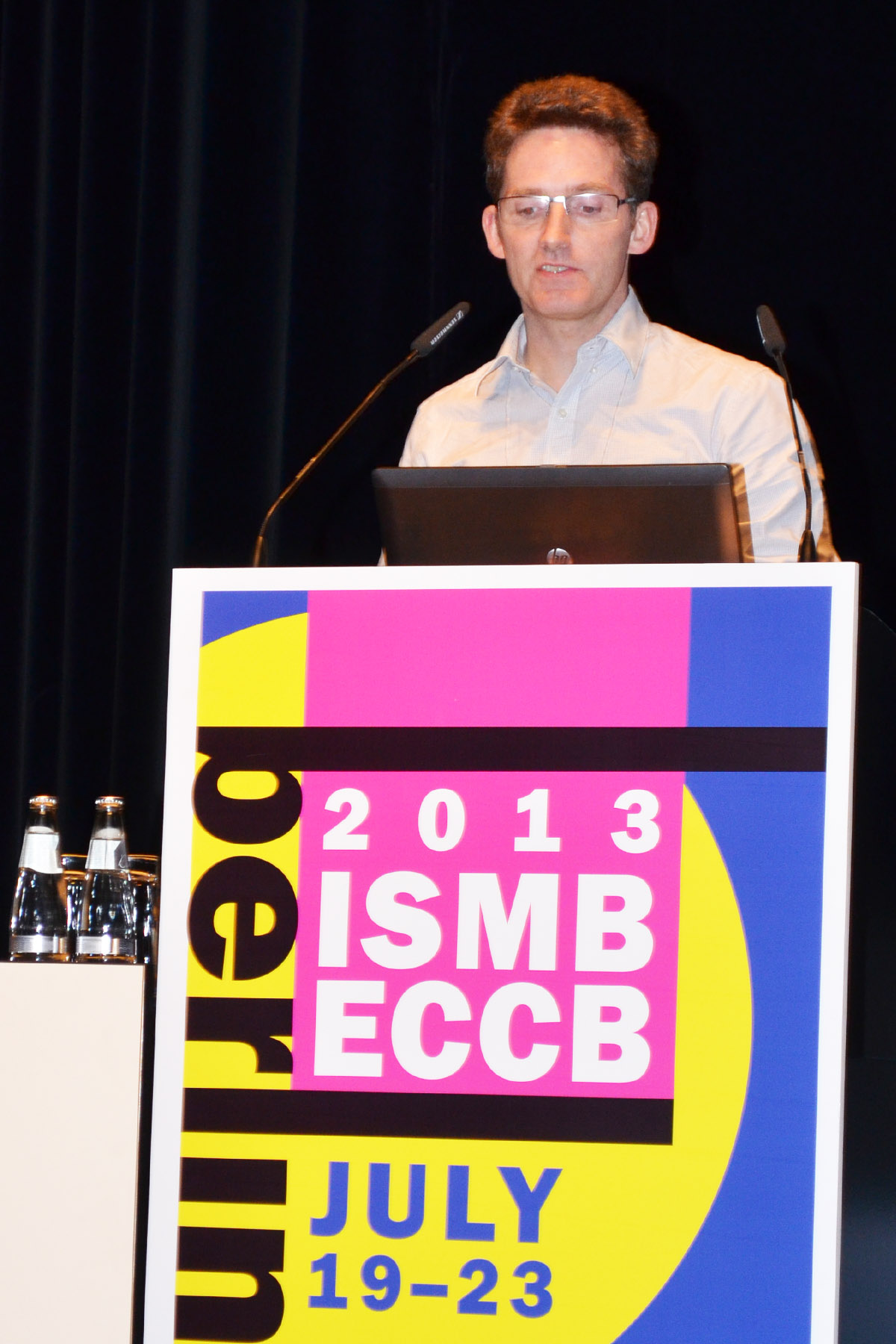 Alex Bateman speaking at ISMB/ECCB 2013